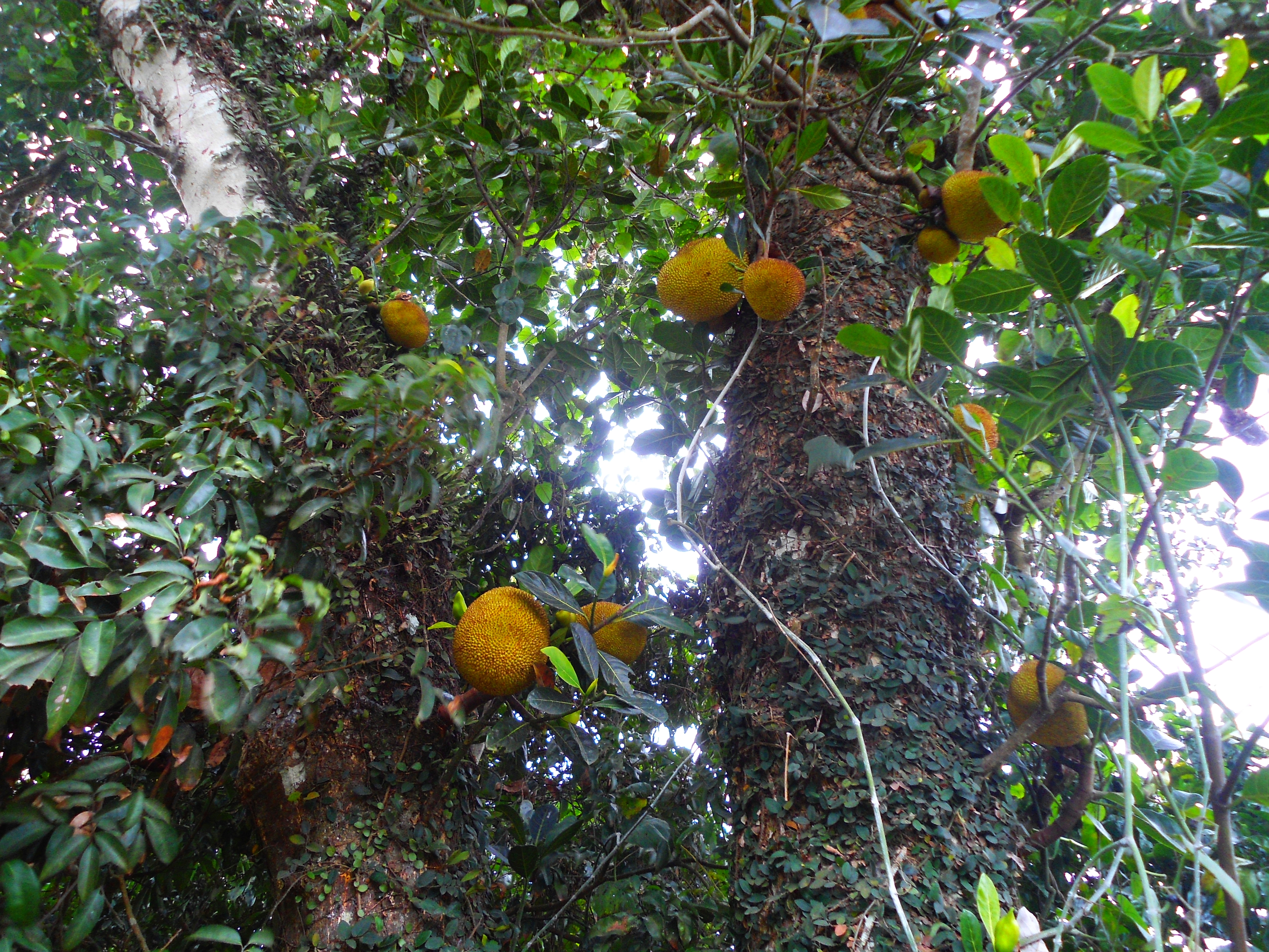 Jack fruit tree in Hainan, China.